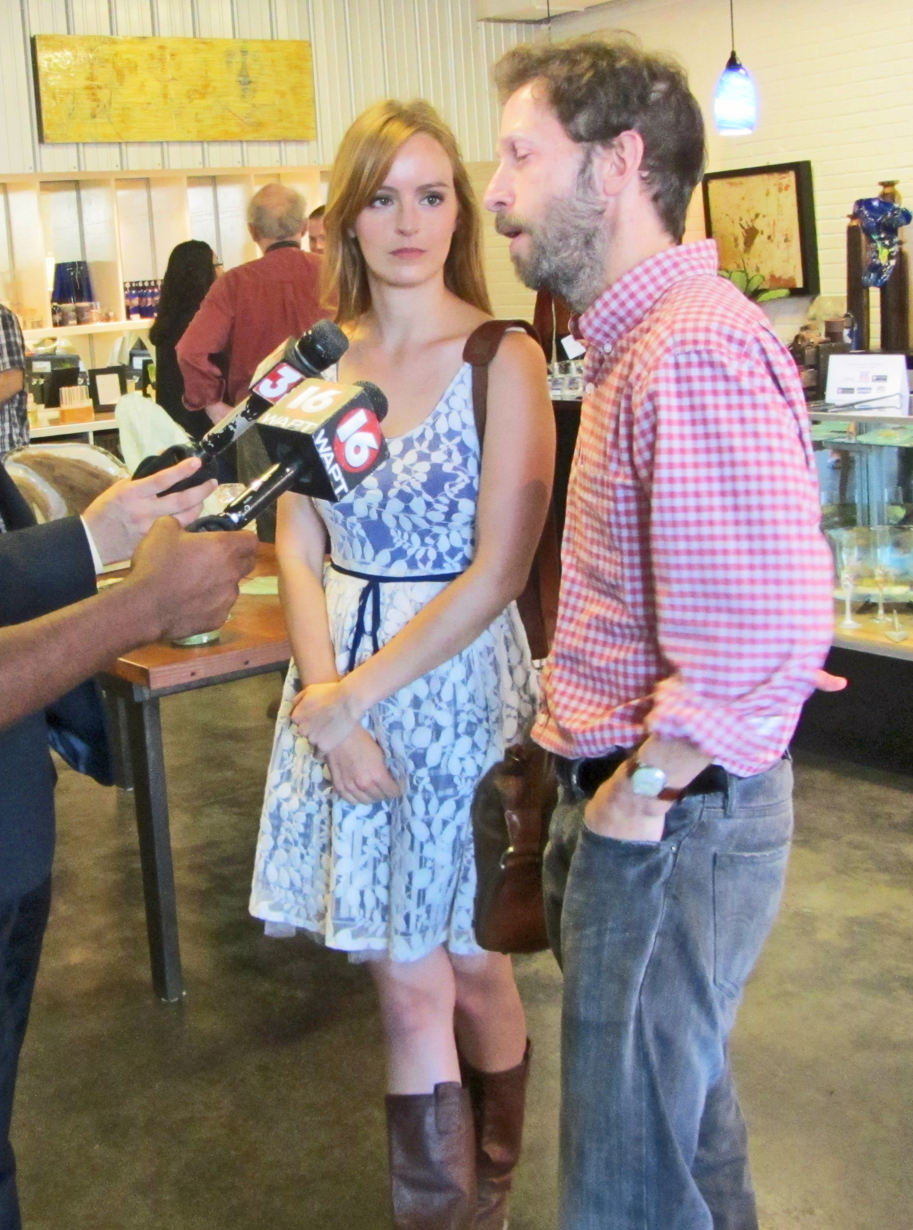 Ahna O'Reilly and Tim Blake Nelson attending a party held at Circa in Jackson on October 4, 2012.